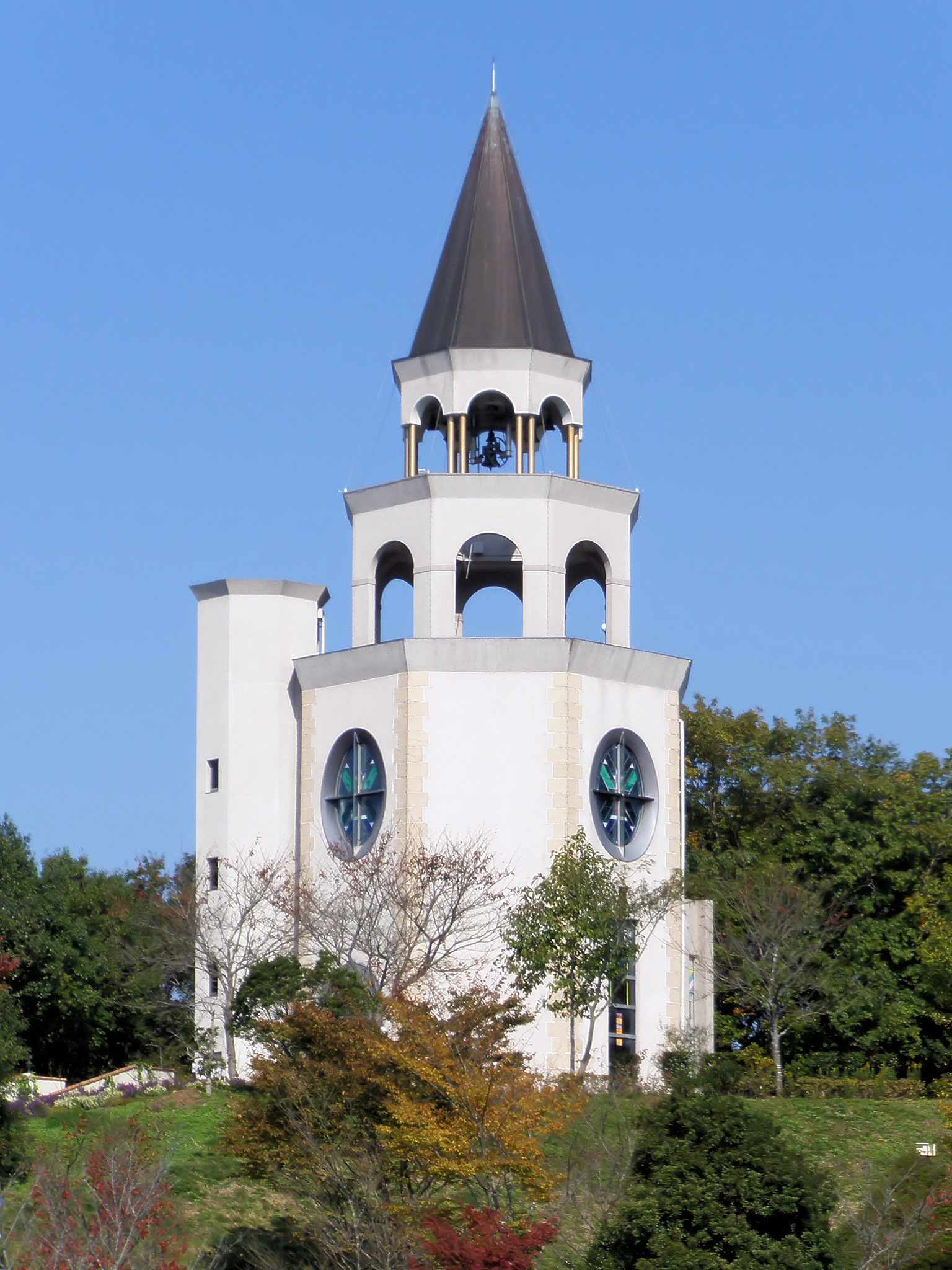 Sakuto Tower.